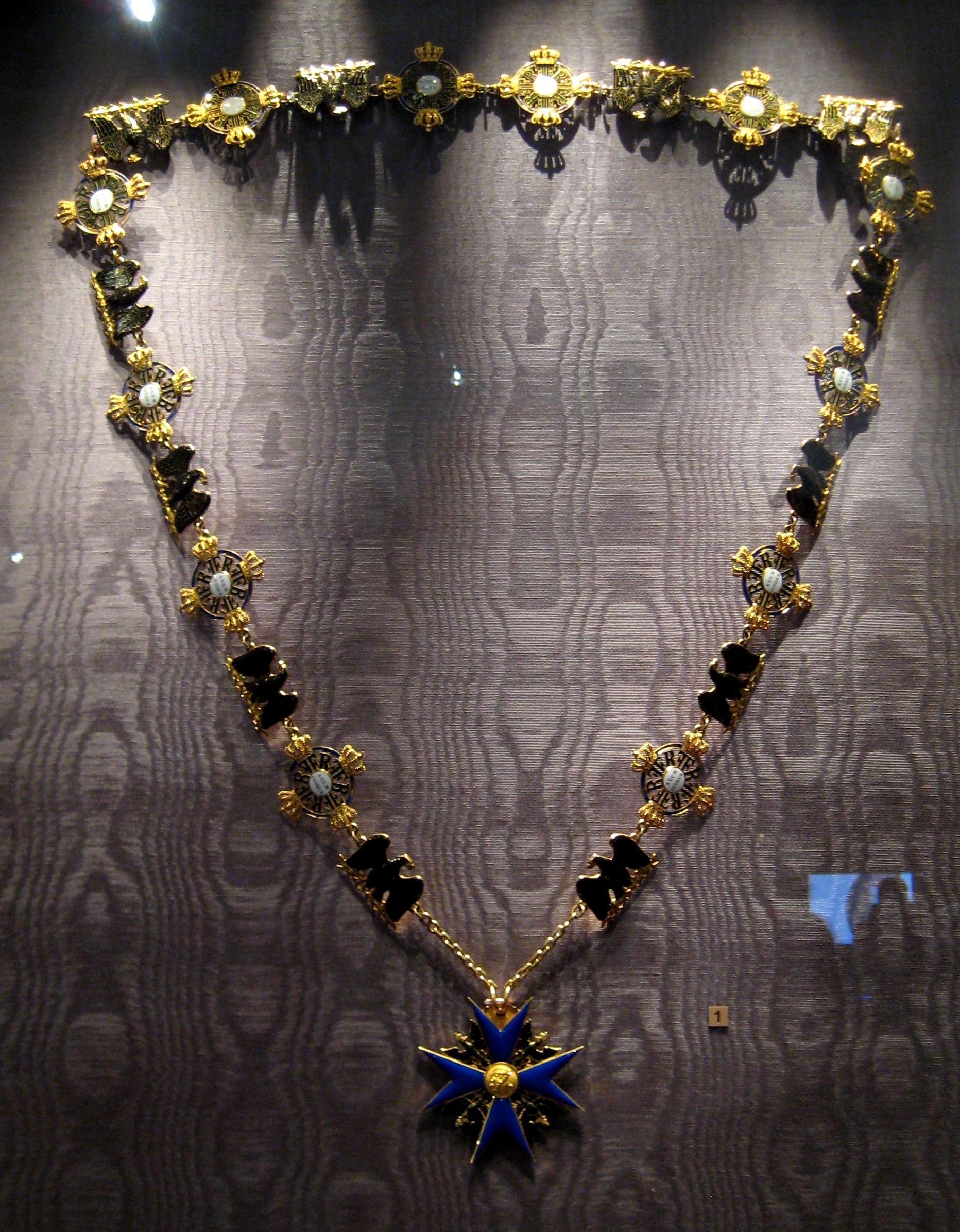 Collar of the order of Black Eagle with badge. Belonged to Nicholas II of Russia (?)